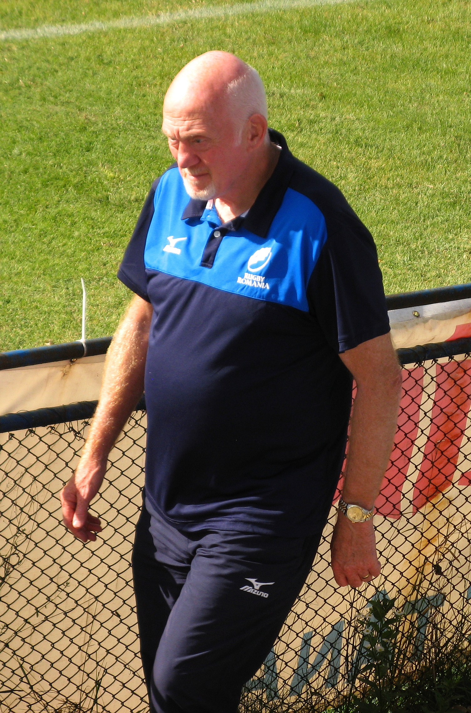 Welsh rugby union coach, currently in charge of the Romanian national team, Lynn Howells, attending a SuperLiga match between Steaua and CSM Baia Mare in 2017